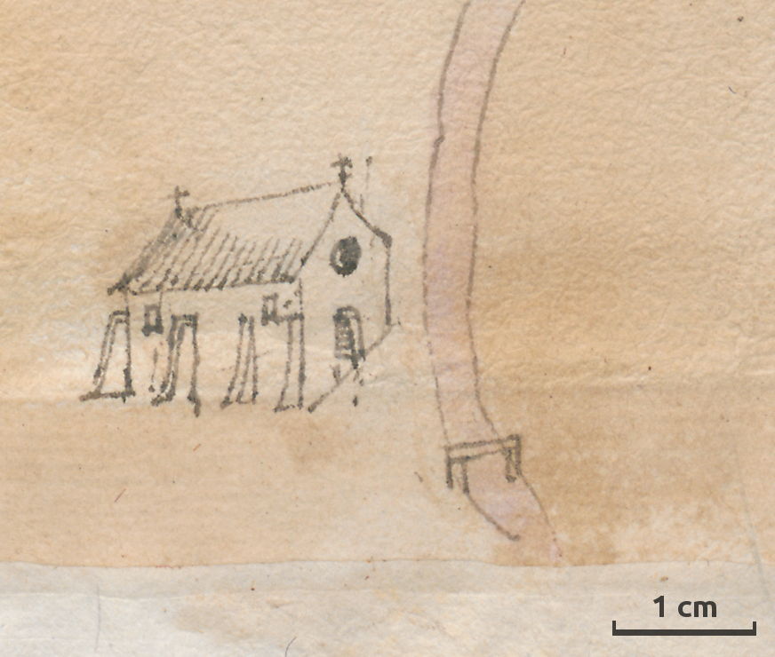 Hospital church of st. Elizabeth, detail from the plan of the town Pukanec by Natale Angielini created between 1572 and 1574.